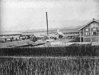 Tomioka Silk Mill